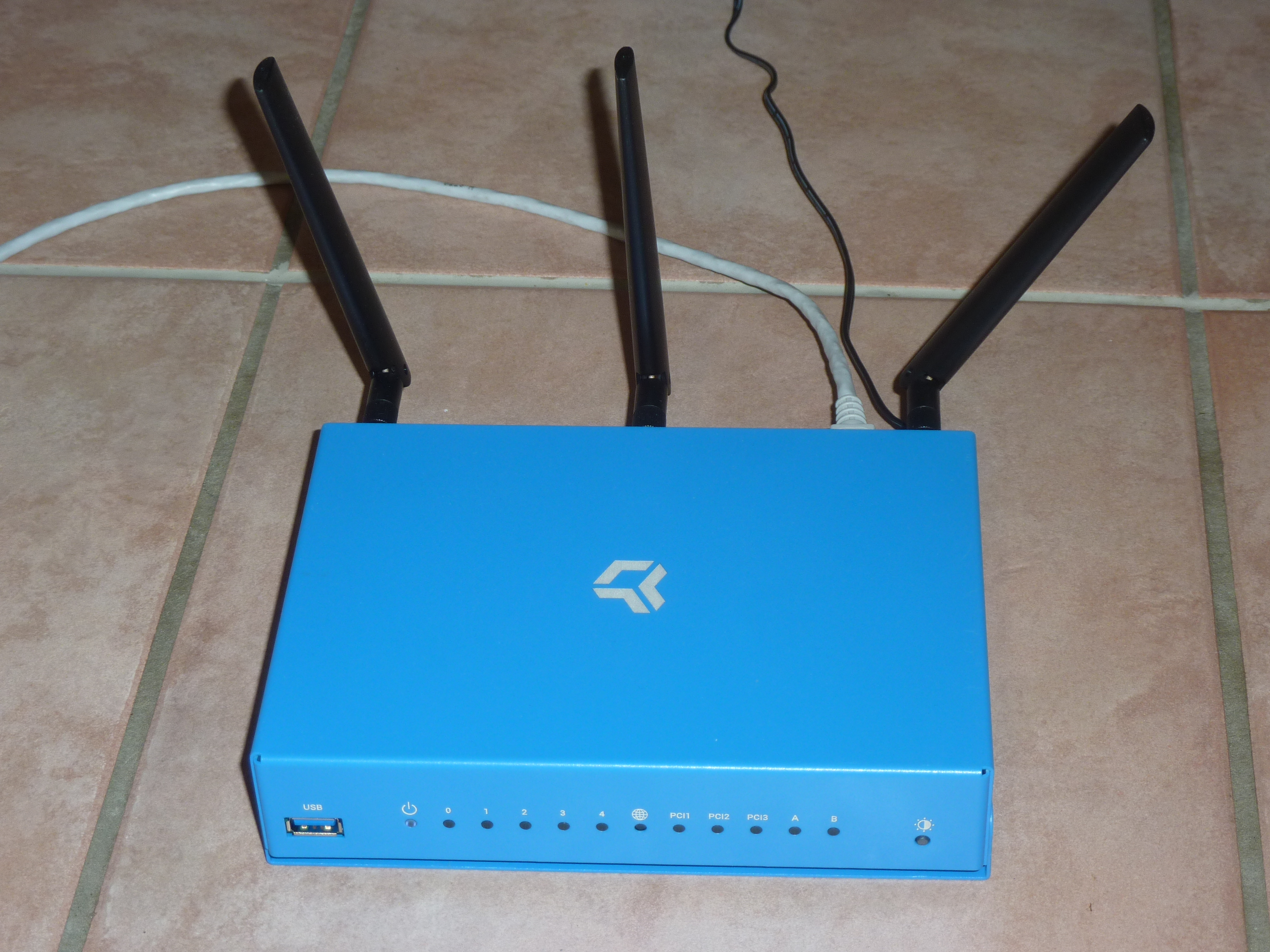 The Turris Omnia router plugged in.